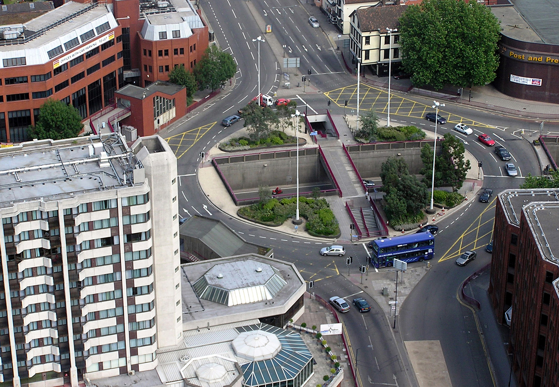 The Old Market Roundabout in Bristol, England, photographed from a tethered passenger balloon at 500 feet. Note that although the picture caption in the article calls this a Traffic Circle, in Bristol (and the rest of England as far as I know) they are called Roundabouts. Points of interest: It is illegal for vehicles to stop on the yellow hatched areas. All entrances to this roundabout have traffic lights. A road passes beneath the roundabout (with the red motorcycle on it). The centre part has gardens. To help pedestrians cross this roundabout, there is a bridge in the middle, and subways. The image shows not provision here for people who use a bicycle. At bottom left is the tall block of the Marriott Hotel.